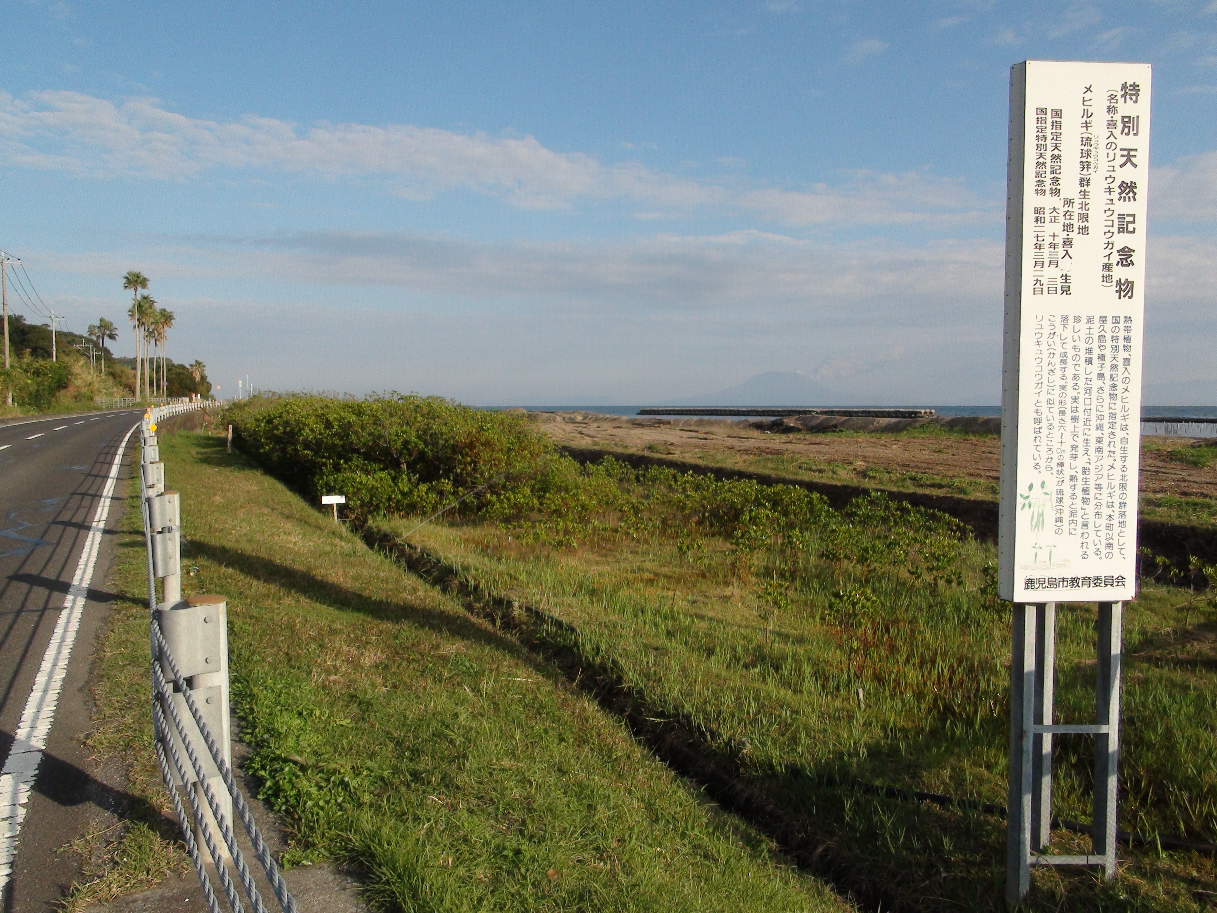 Kiire Kandelia obovata plant community